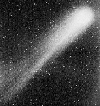 A photograph of all of Halley's Comet during its pass through the inner Solar System in 1986, including the comet's coma and its head.